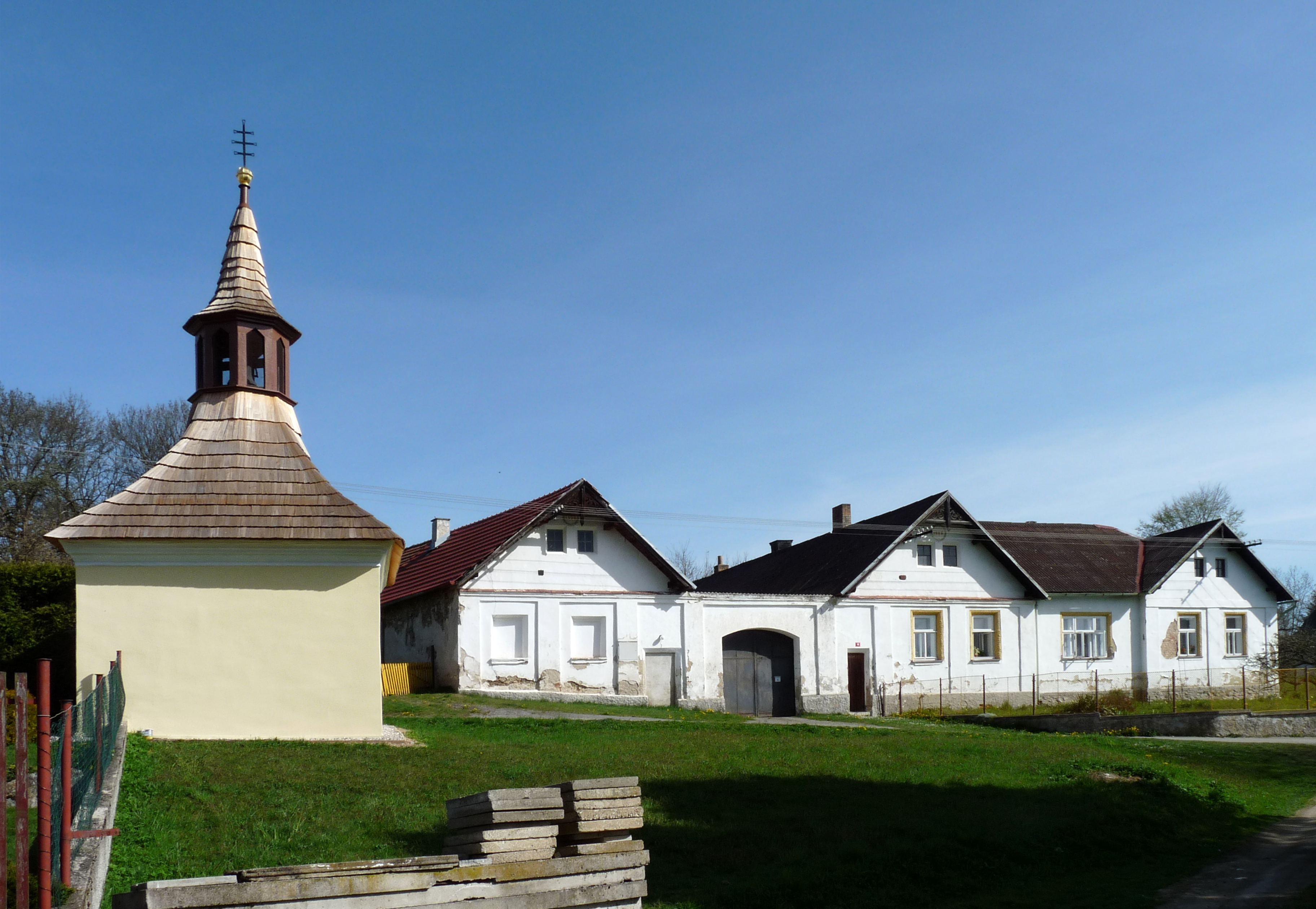 Chapel and house No 16 in the village of Pejškov (Pelhřimov), part of the town of Pelhřimov, Pelhřimov District, Vysočina Region, Czech Republic.